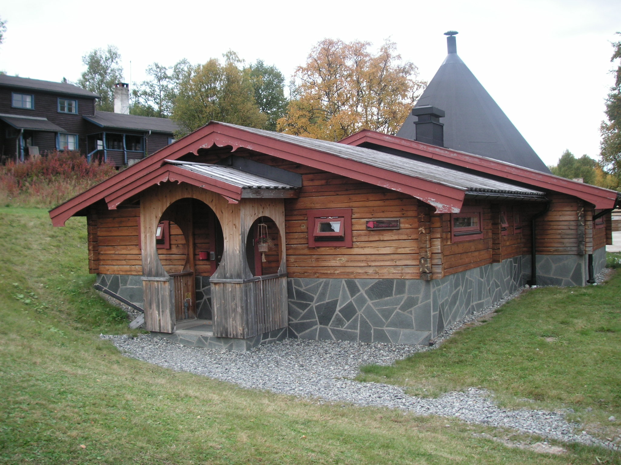 Sauna